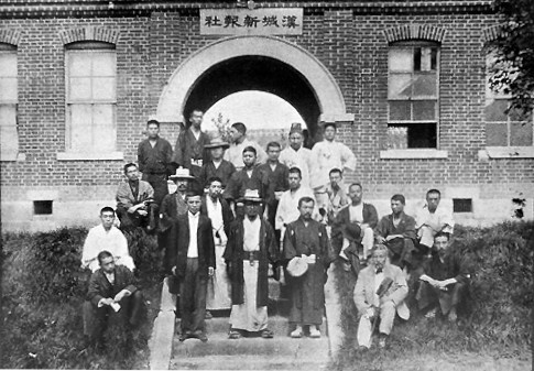 The alleged murderers of Empress Myeongseong took a pose in front of Hanseong sinbo (Hanseong newspaper) building in Seoul, Korea.